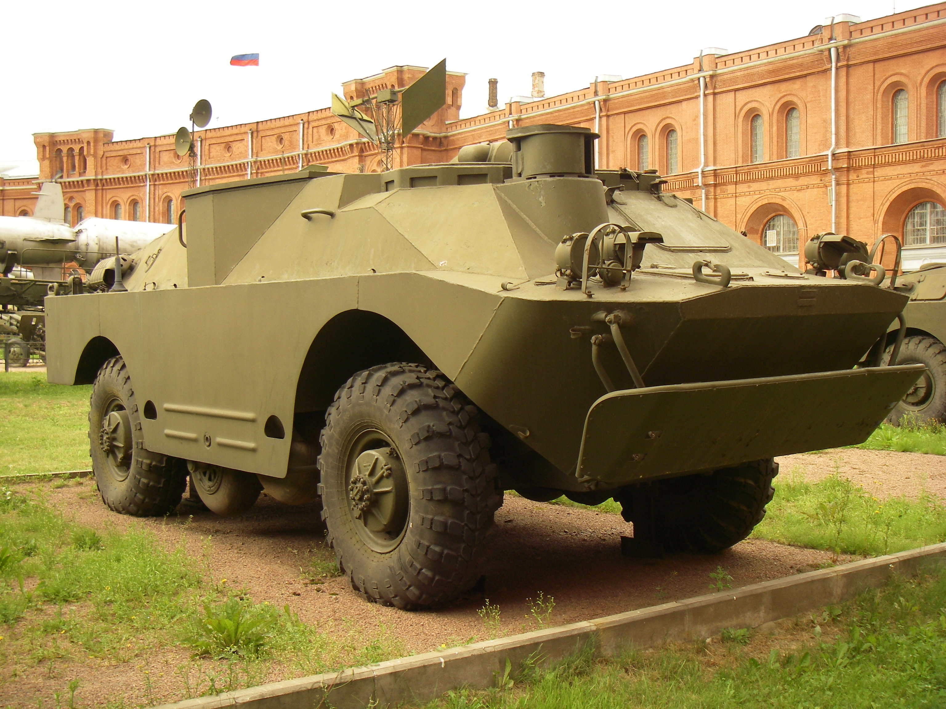 9P137 vehicle with 9M17P missiles of anti-tank complex «Flejta» («Falanga-P») in Saint Petersburg Artillery museum